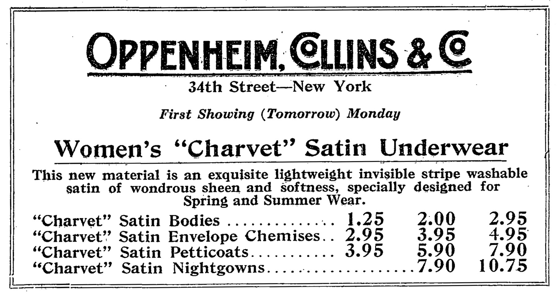 Advertising for underwear in "Charvet" fabric